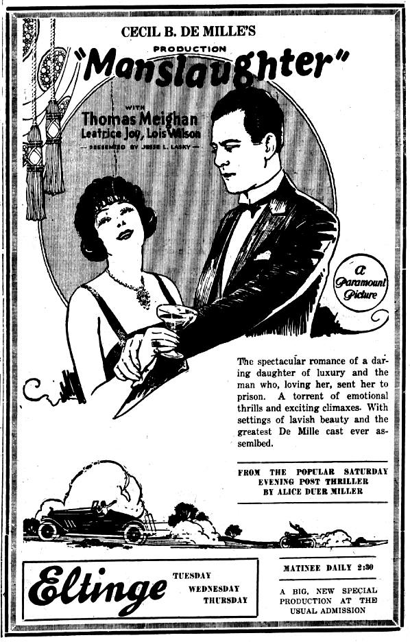 Newspaper ad for the 1922 film Manslaughter. Cleaned up and cropped with GIMP.